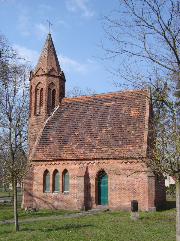 Chapel in Seedorf, municipality Jerichow, Saxony-Anhalt